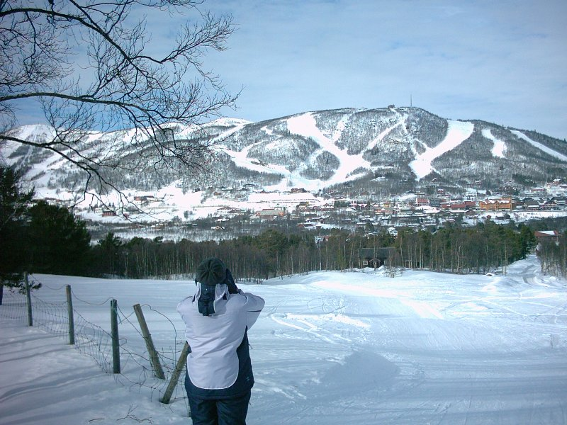 Author - J Grube